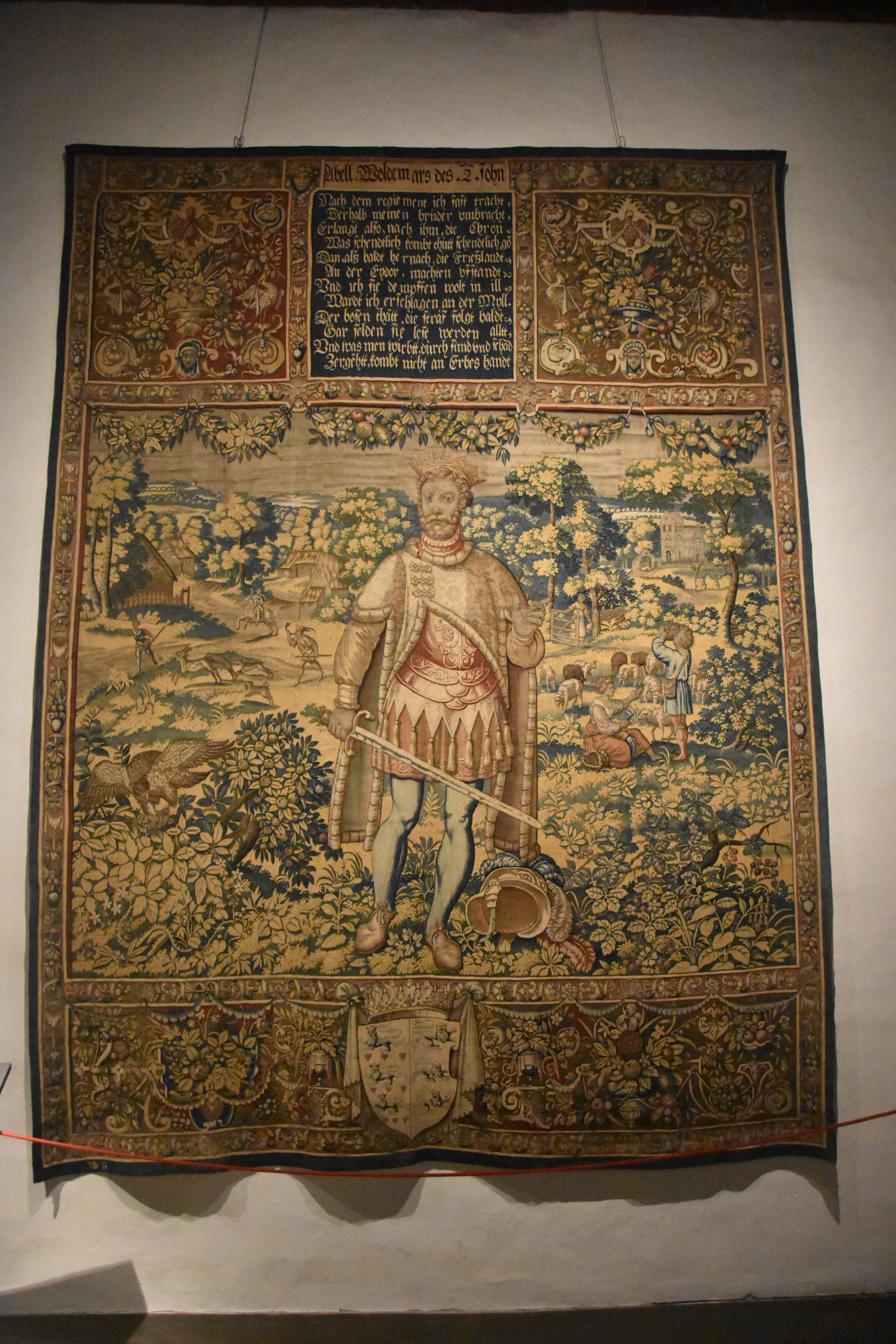 King Abel of Denmark, on a tapestry in castle Helsingor